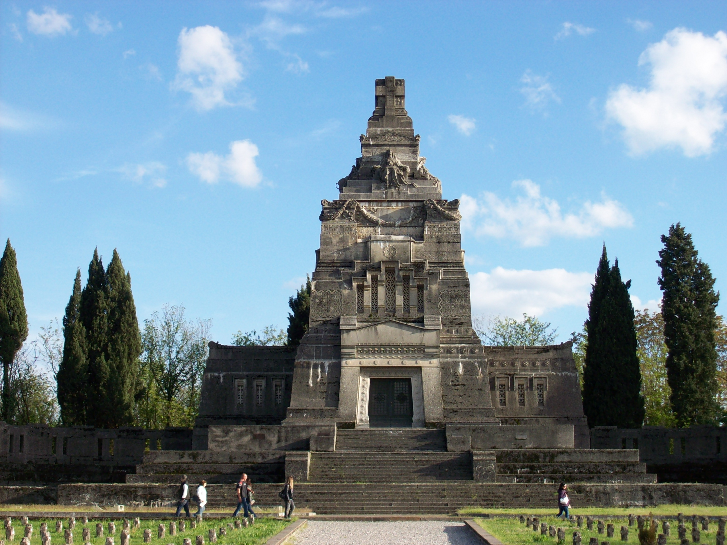 Crespi d'Adda workers' village (Capriate San Gervasio, province of Bergamo, Italy): the Crespi's memorial chapel in the village graveyard